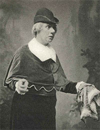 Mauritz Ludvig Fröberg (1851-1907) in the operetta Boccaccio